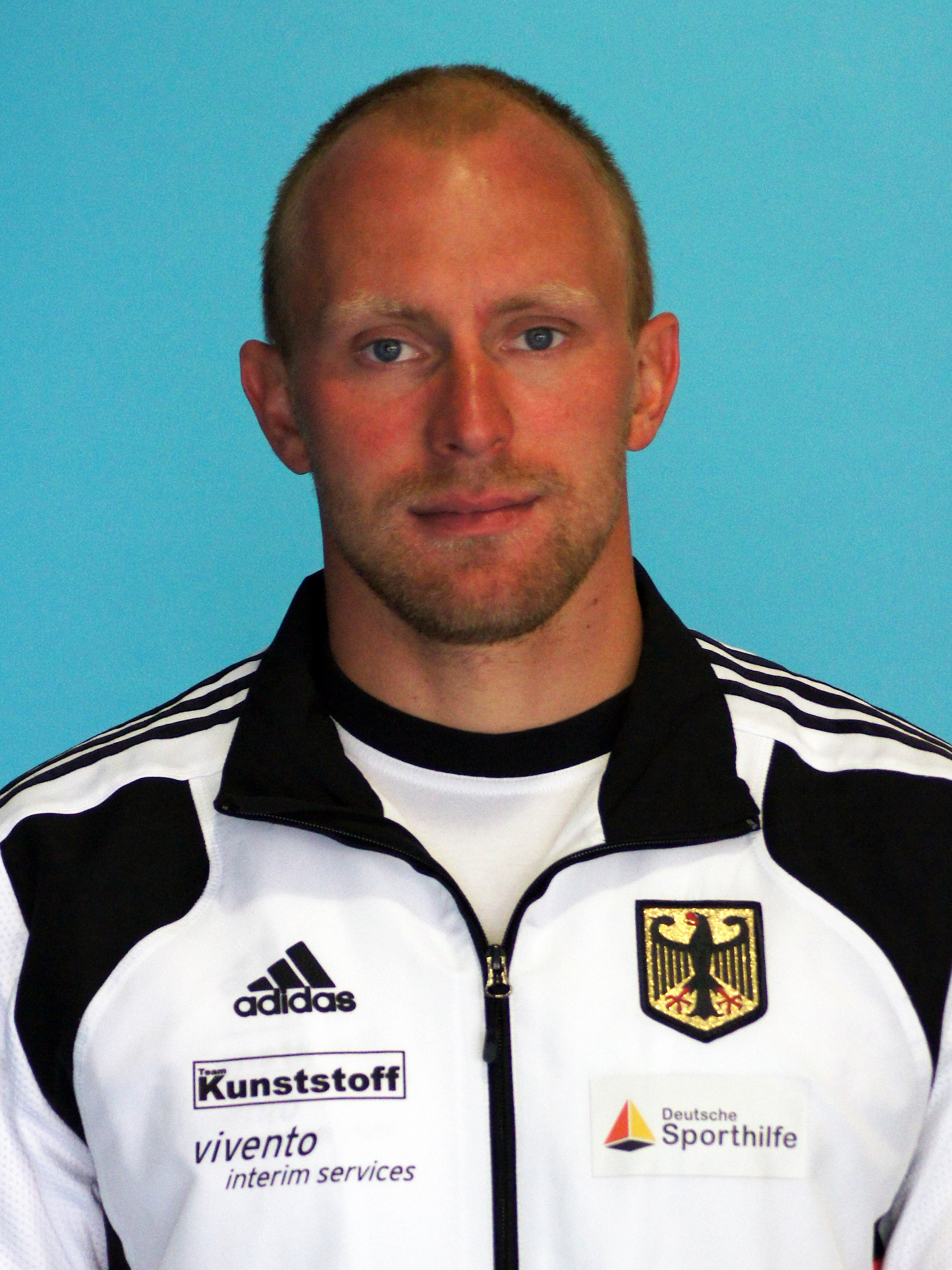 Norman Bröckl, Olympic Bronzemedalist 2008, Canoe-Sprint (Bild: O. Strubel)